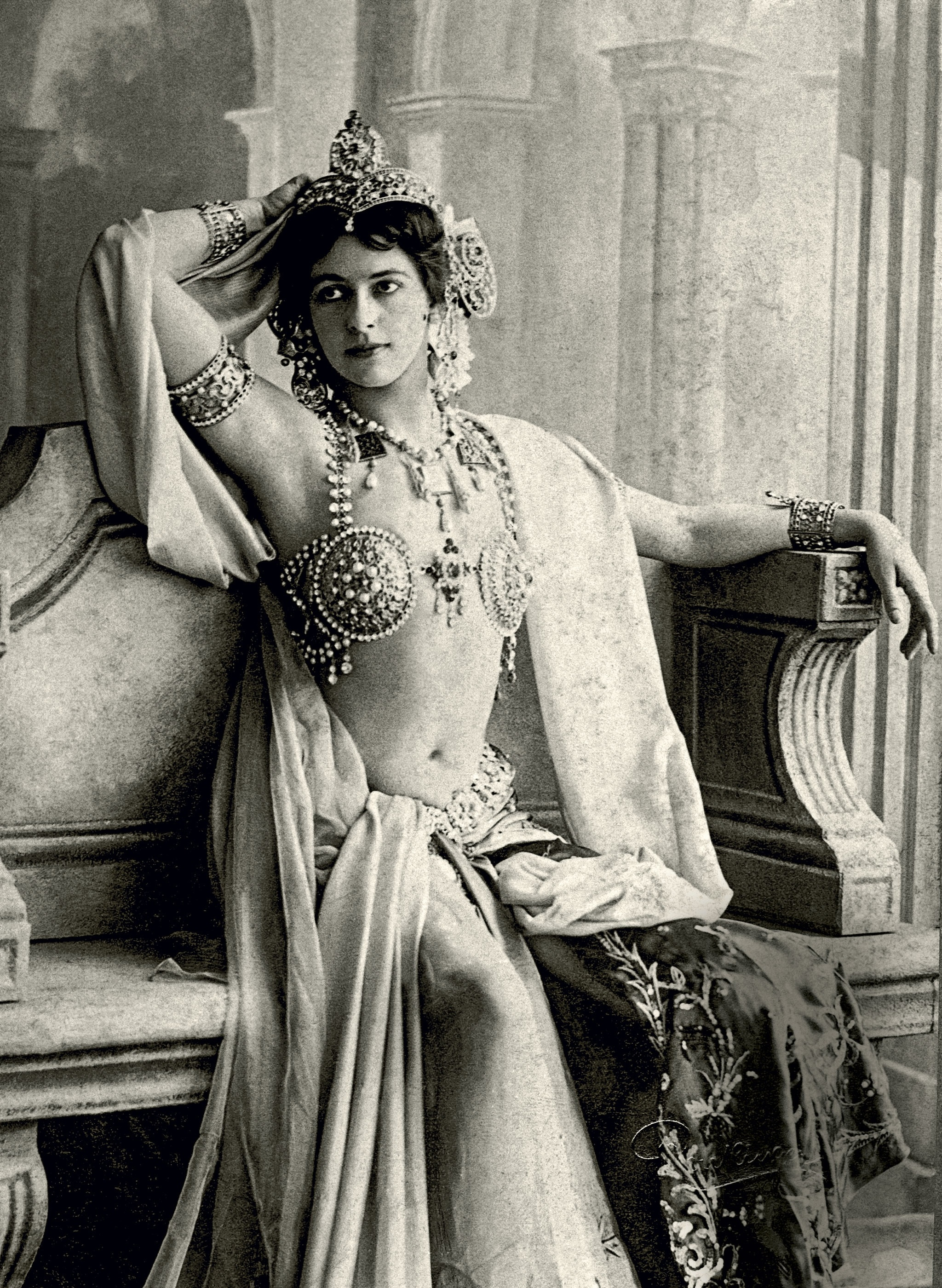 Mata Hari in 1906, soon after the Dutchwoman reinvented herself as an exotic dancer. Inspired by dances she had seen in the Dutch East Indies, she took a stage name that means “eye of the day” in Malay.